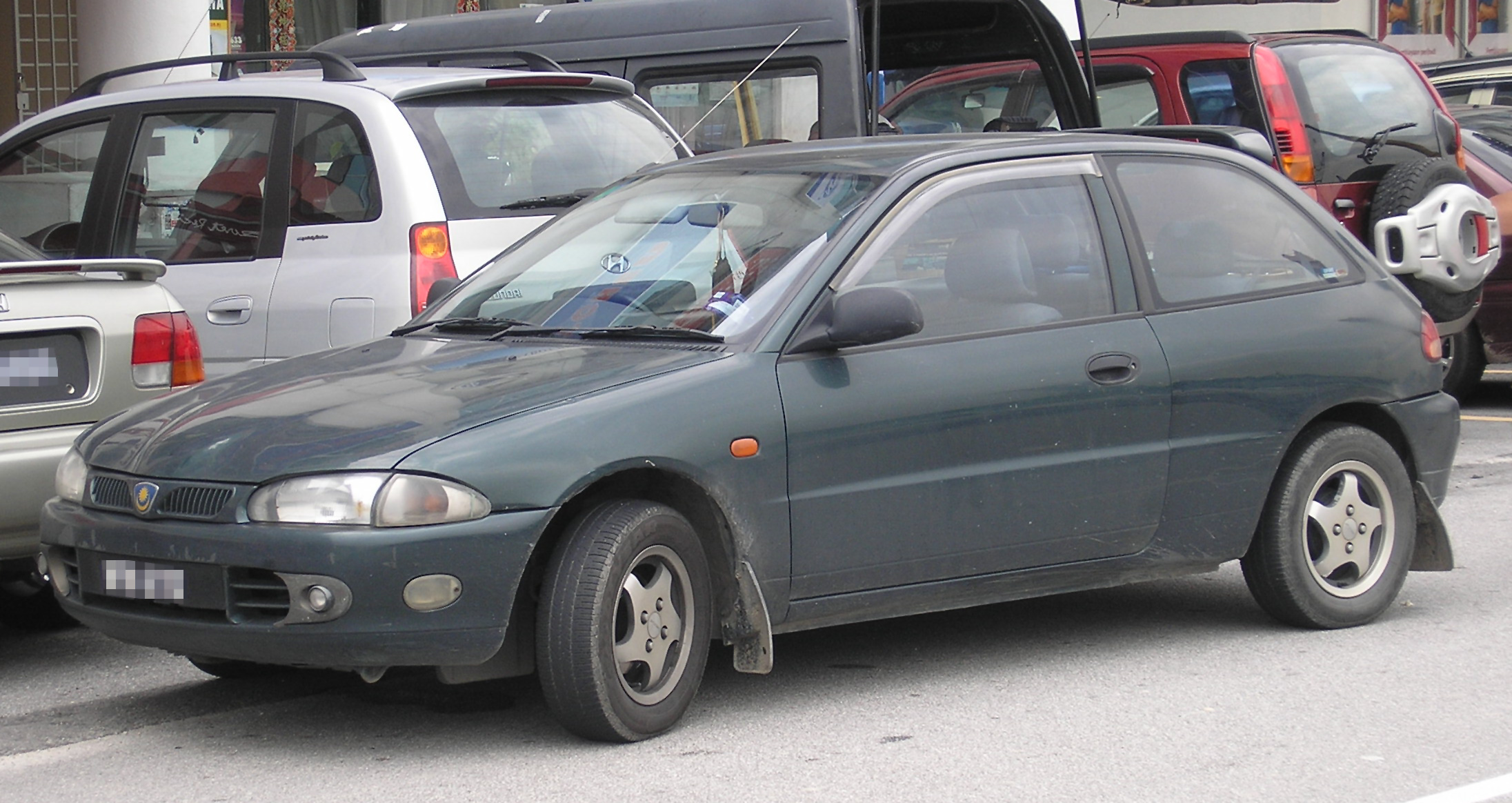 The front of a second generation Proton Satria, in Serdang, Malaysia.